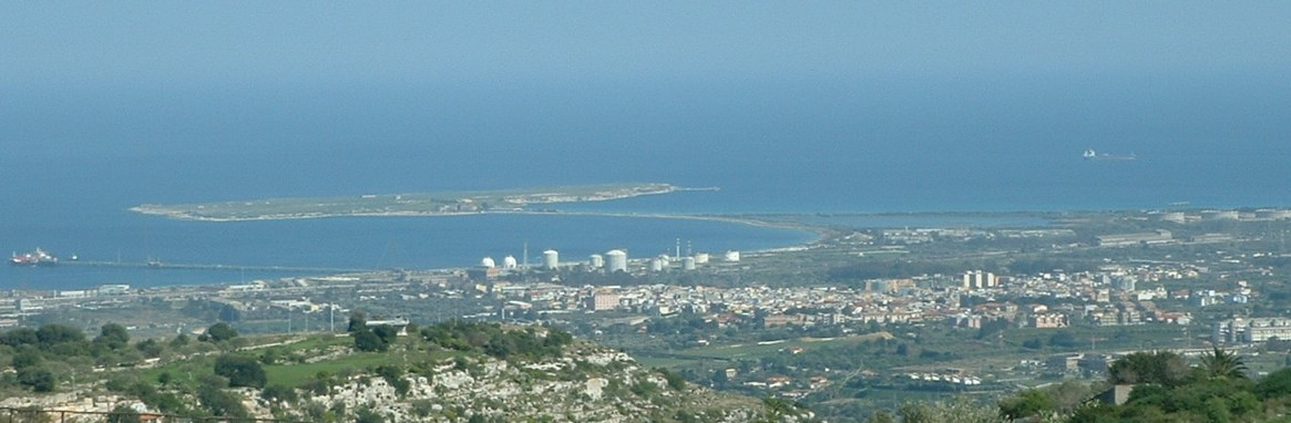 Priolo Gargallo(SR), View of town and Magnisi peninsula.